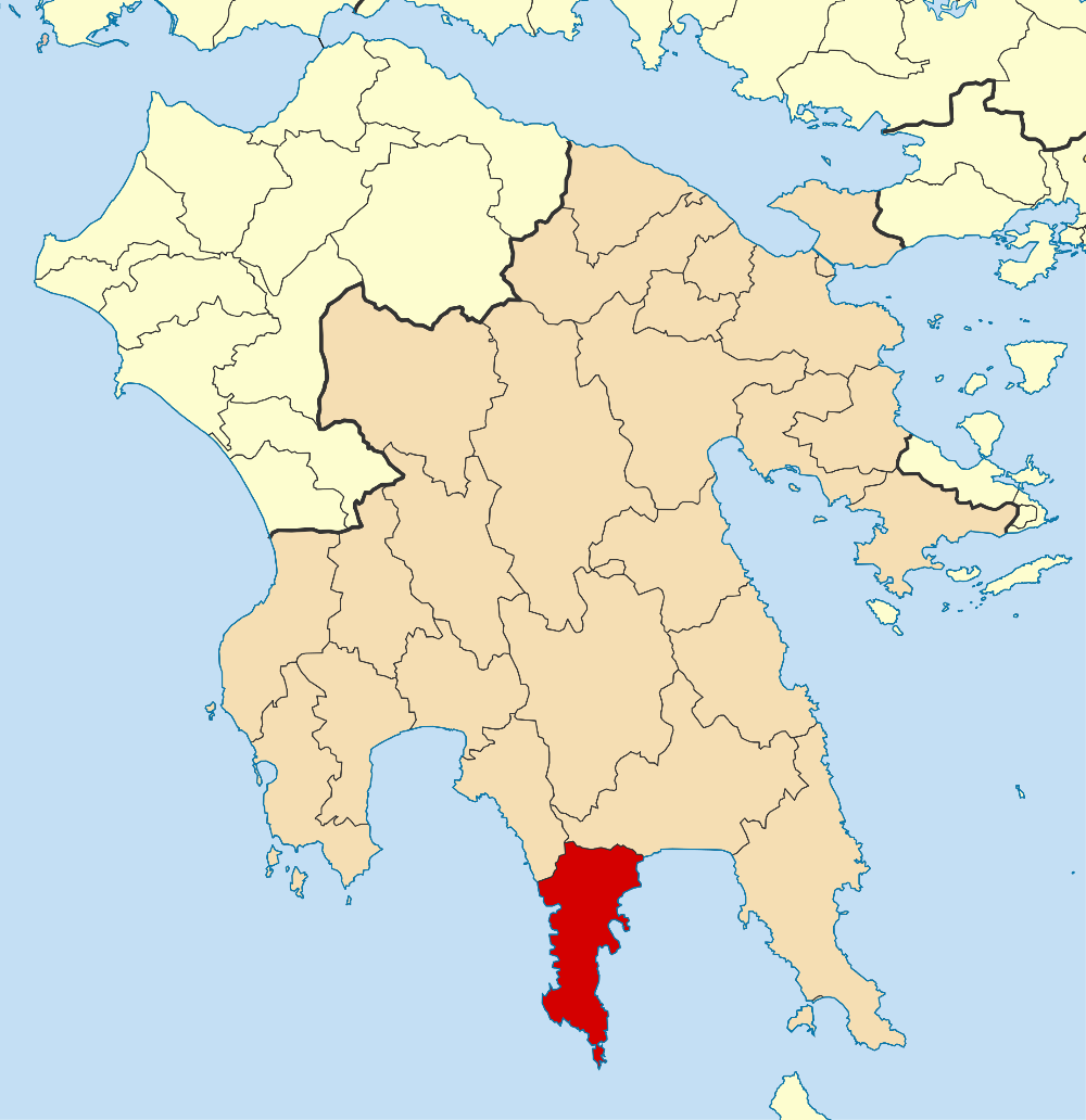 Locator map for Anatoliki Mani municipality in Greek region Peloponnese (2011)